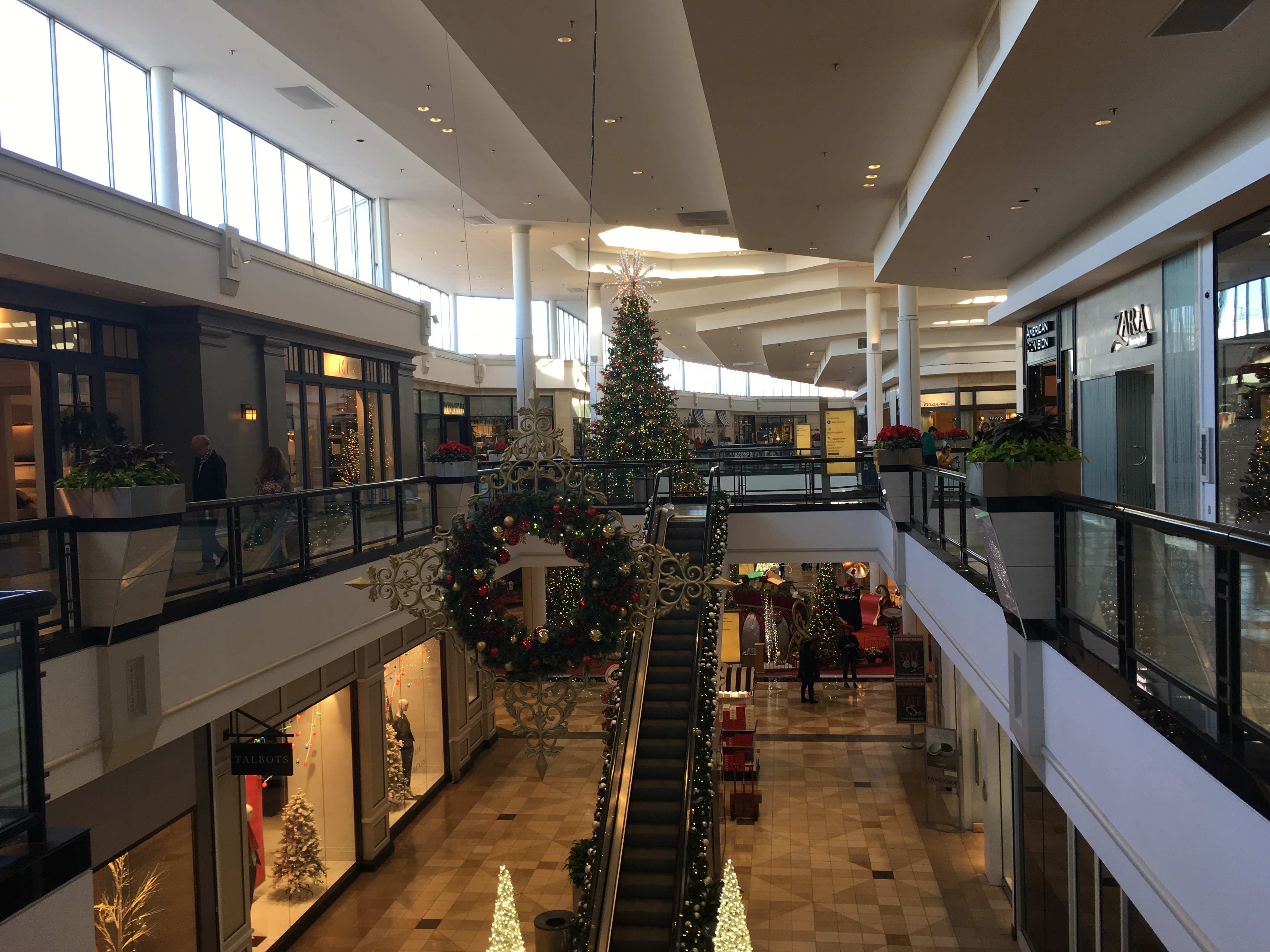 A view of the second floor at the King of Prussia Mall in King of Prussia, Pennsylvania near Bloomingdale's during the Christmas season